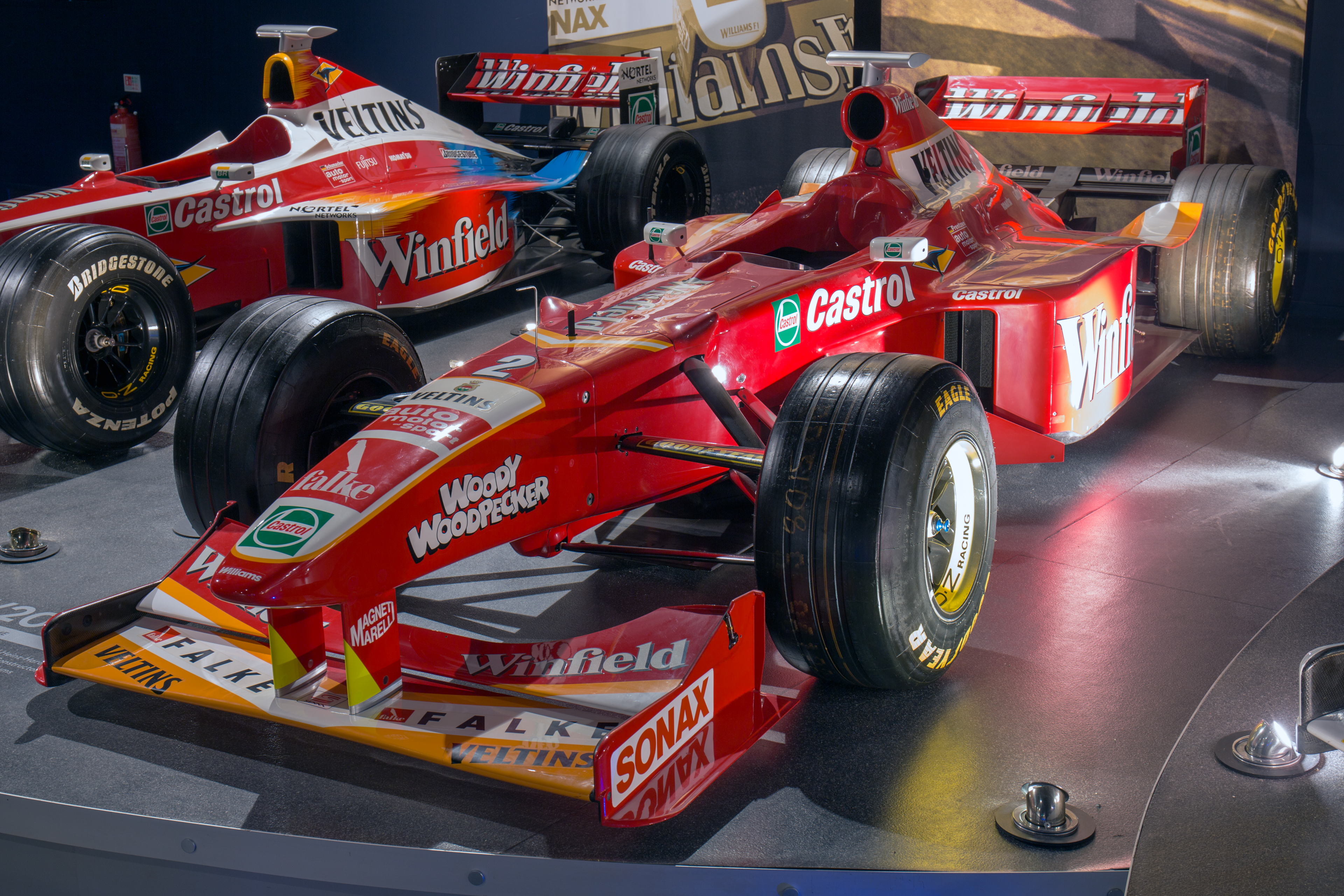 Williams Conference Centre (Grove): Williams FW20 of Heinz-Harald Frentzen